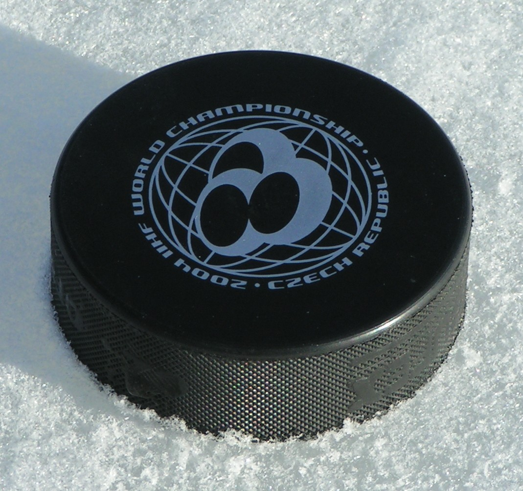 Hockey puck, picture taken by Janothird, February 12, 2006